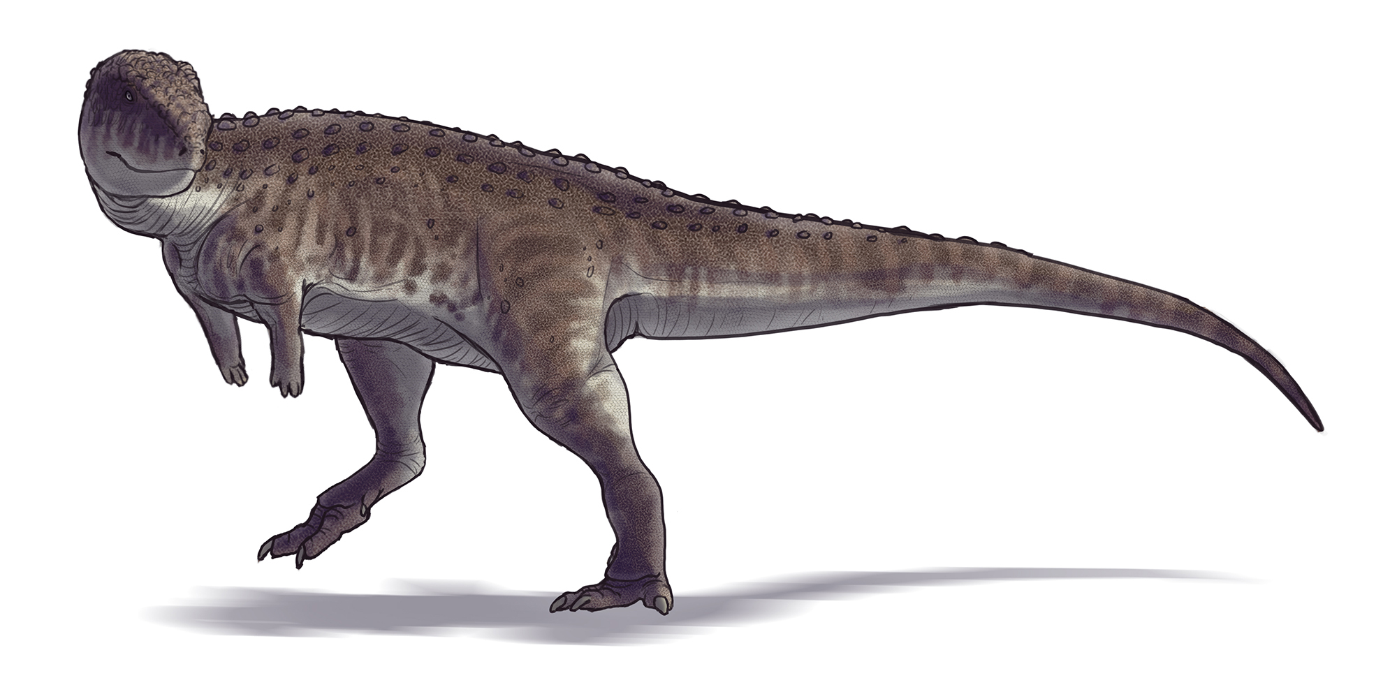 Life restoration of Eoabelisaurus mefi